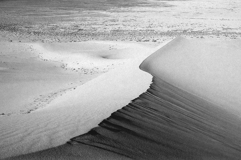 Death Valley National Park, California, USA, Eureka Valley Sand Dunes